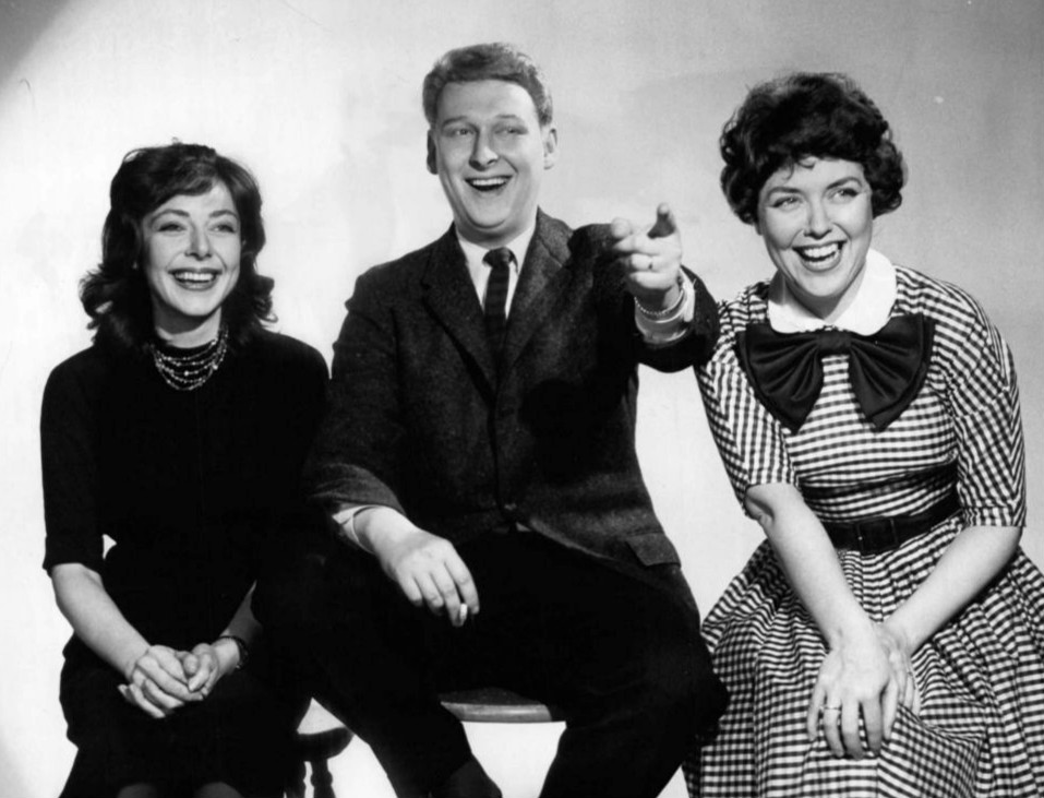 Photo of Elaine May, Mike Nichols and Dorothy Loudon as panelists from the game show Laugh Line.